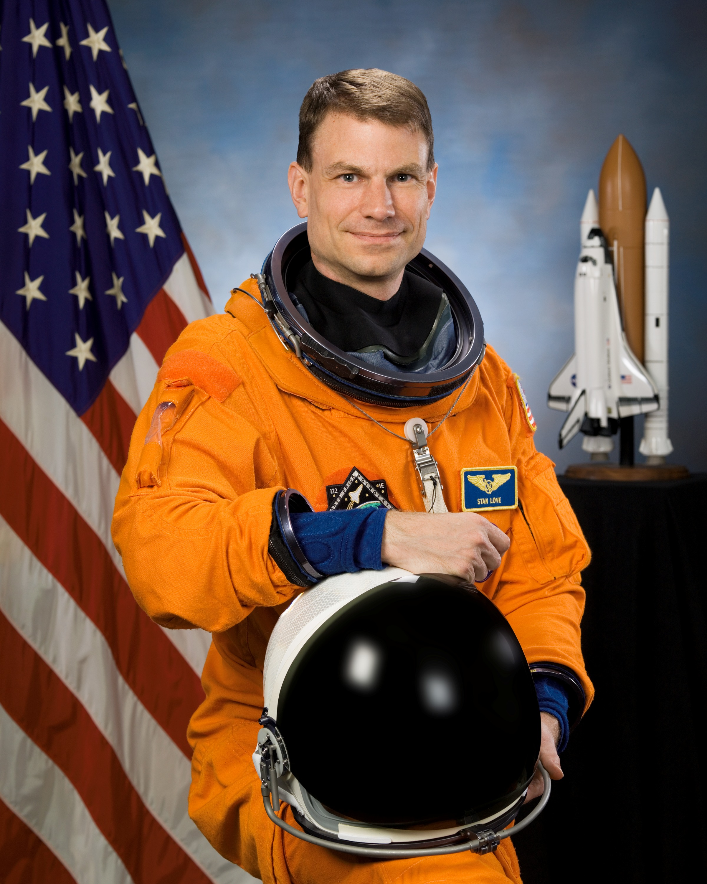 Astronaut Stanley G. Love, a mission specialist of STS-122.